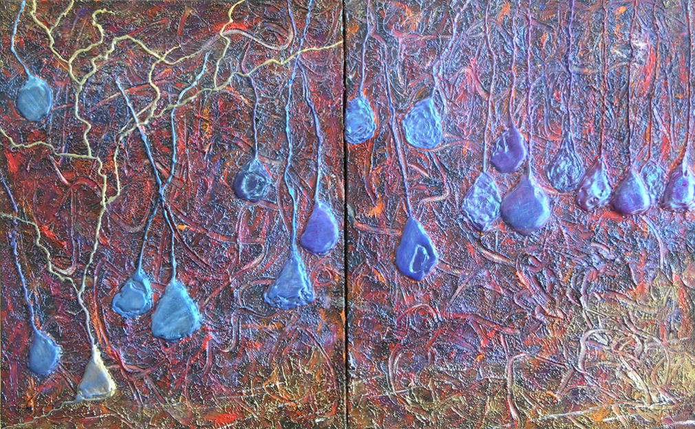 An acrylic painting by Don Cooper and Leah Leverich shows the transition zone between the densely packed pyramidal neurons in the CA1 region (right) and the spread-out pyramidal neurons within the subiculum (left)